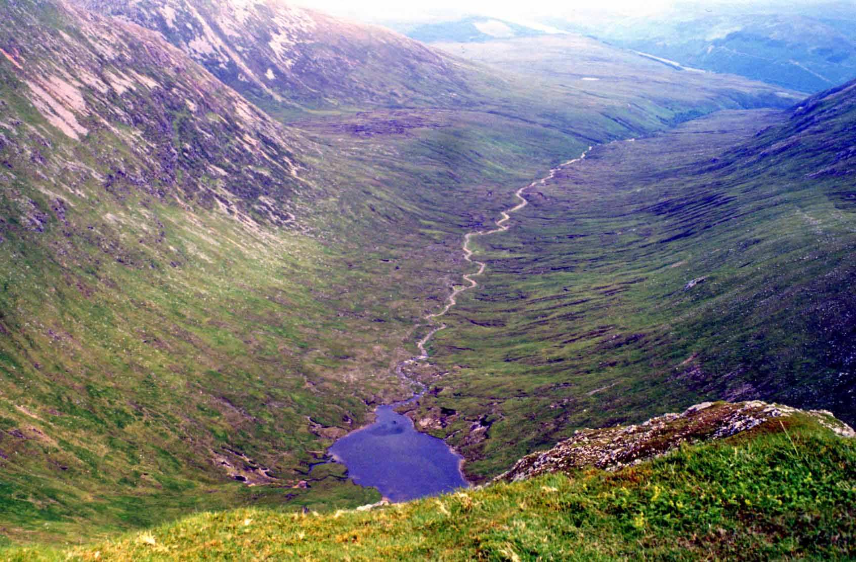 Personal picture taken by Mick Knapton